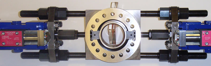 Twin Moog Servo Valves controlling a deformable die used in Blow Molding. Image shows a component of the 3DX Deformable Die system